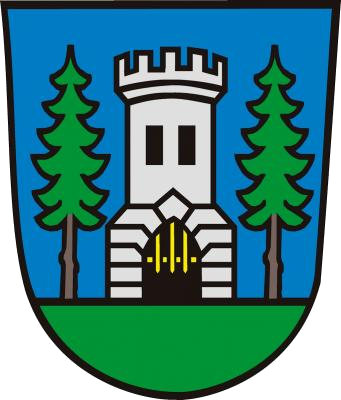 Coat of arms of the municipality of Burgau